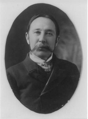 Portrait of George E. Bowden